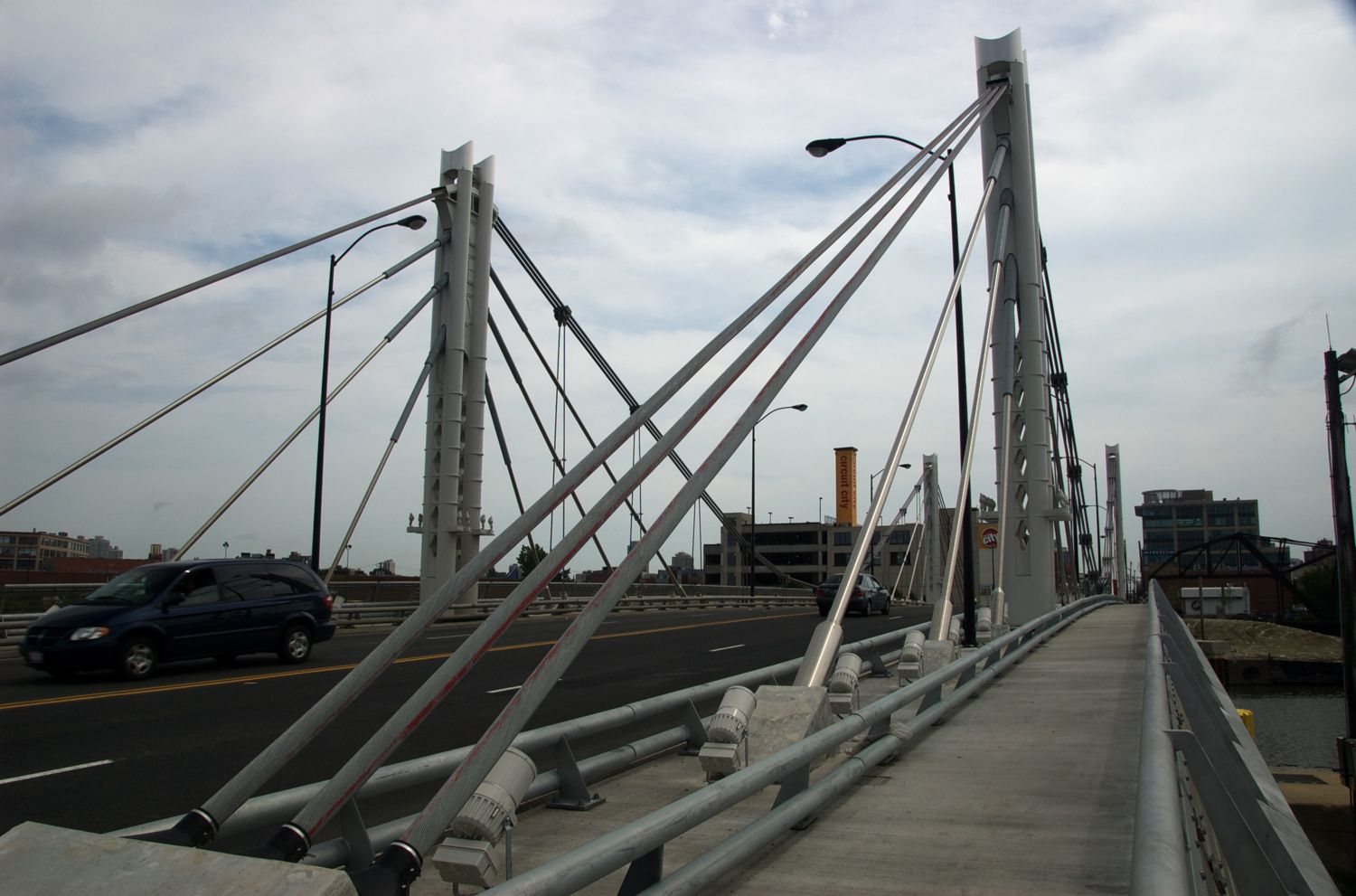 Close-up of the North Avenue Bridge over the Chicago River from the south sidewalk.